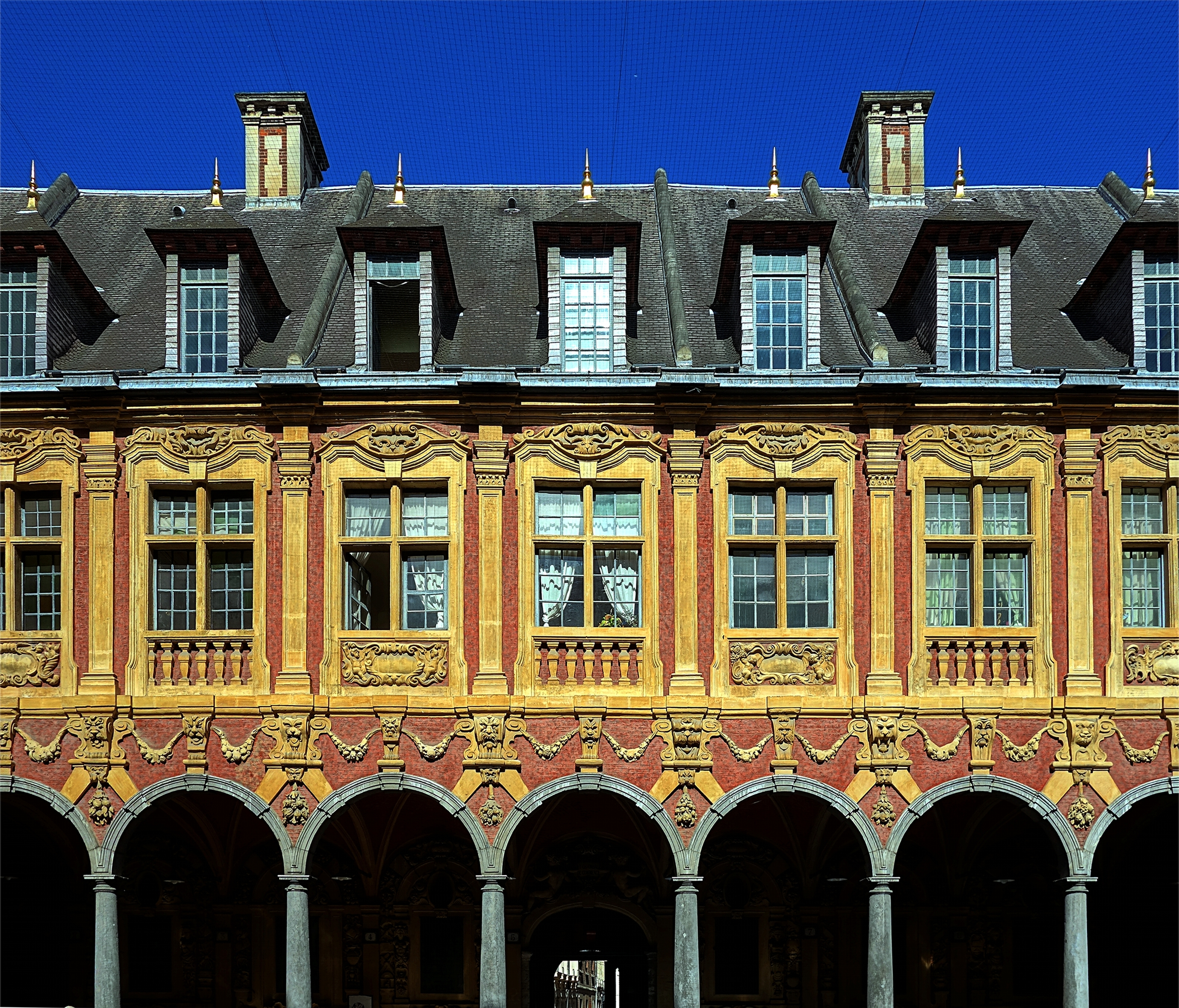 Interior view of the Vieille Bourse in Lille, France. .